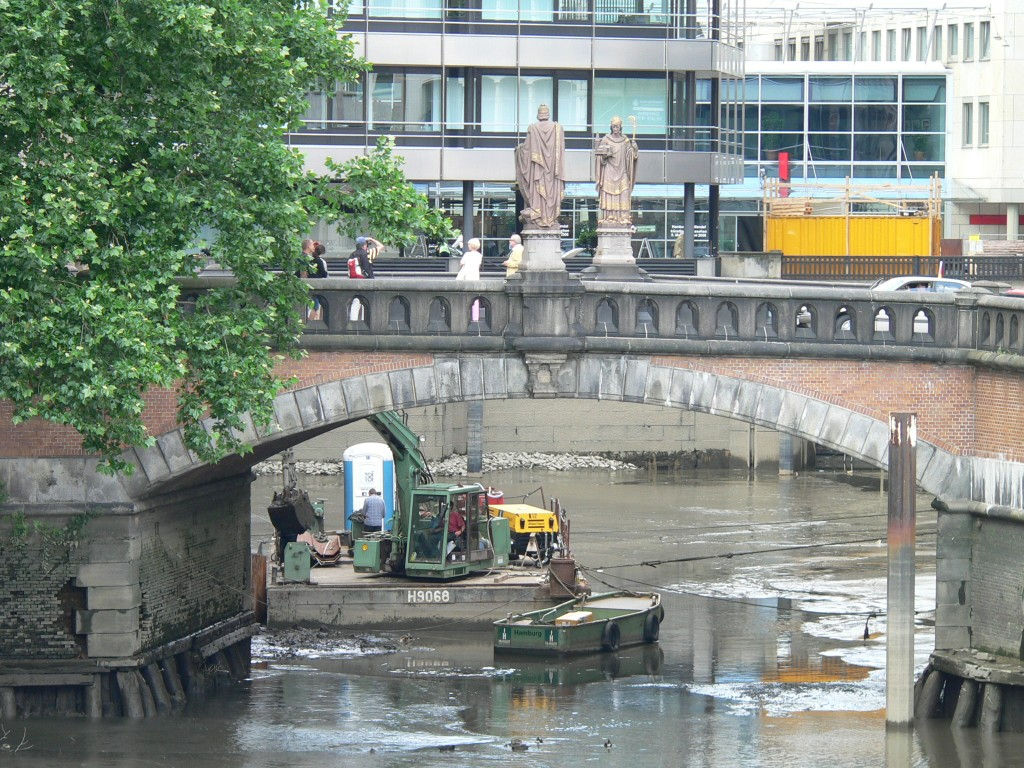 Trostbrücke in Hamburg bei Reinigungsabeiten This is a photograph of an architectural monument.